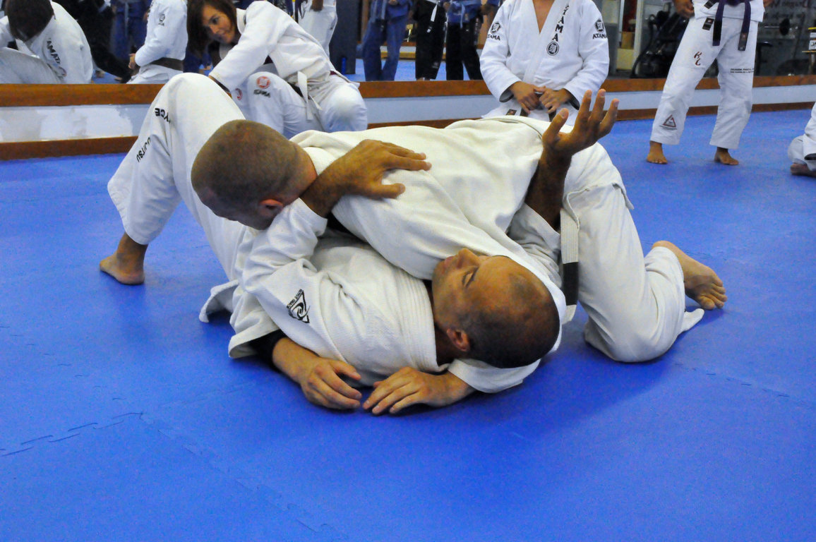 Royce Gracie giving a Gracie Jiu-Jitsu seminar.